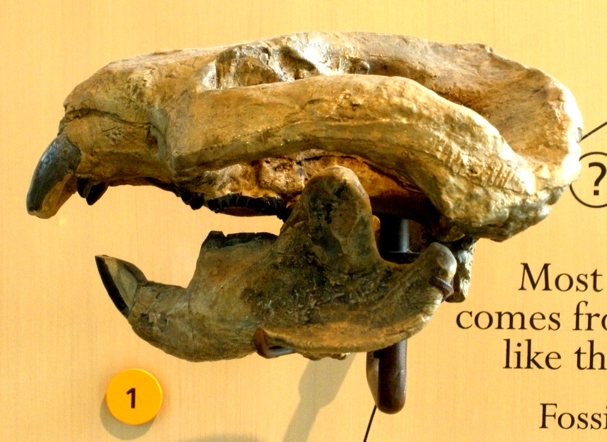 fossil of Taeniolabis, an extinct multituberculate